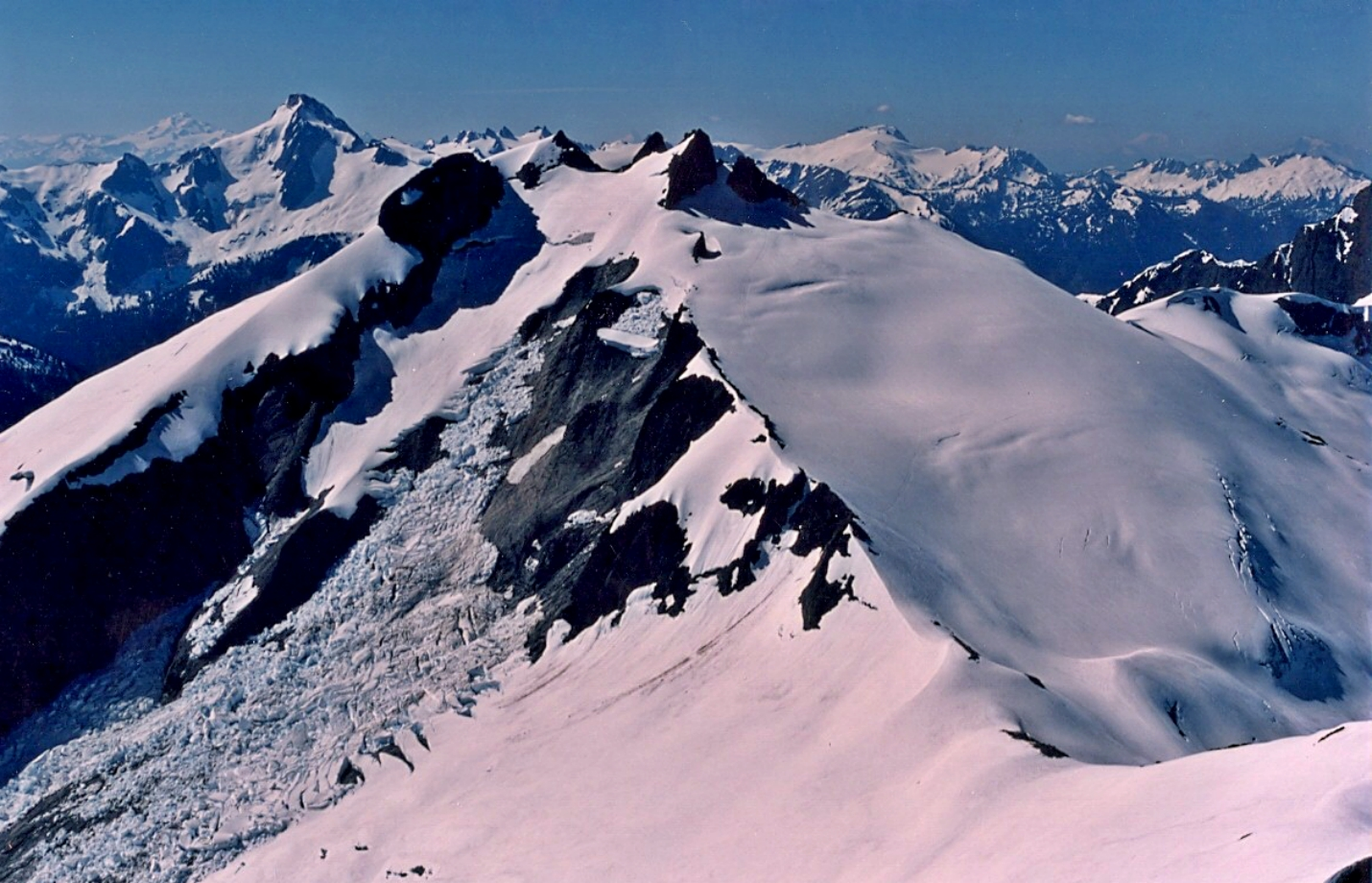 Icy Peak in North Cascades National Park as seen from Ruth Mountain, Annotaions for Glacier Peak, Mount Blum, and Bacon Peak.